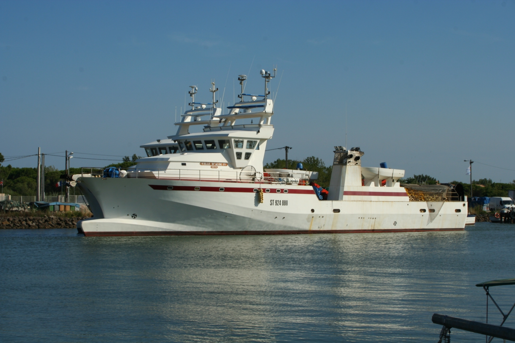 Length : 40 m Beam: 9 m Max. draught :3,56 m Speed: 17 nds Building : Composite Verre Résine Holds capacity : 182 m3 G.O : 68m3 Shipyard : Construction navale Martinez St Cyprien